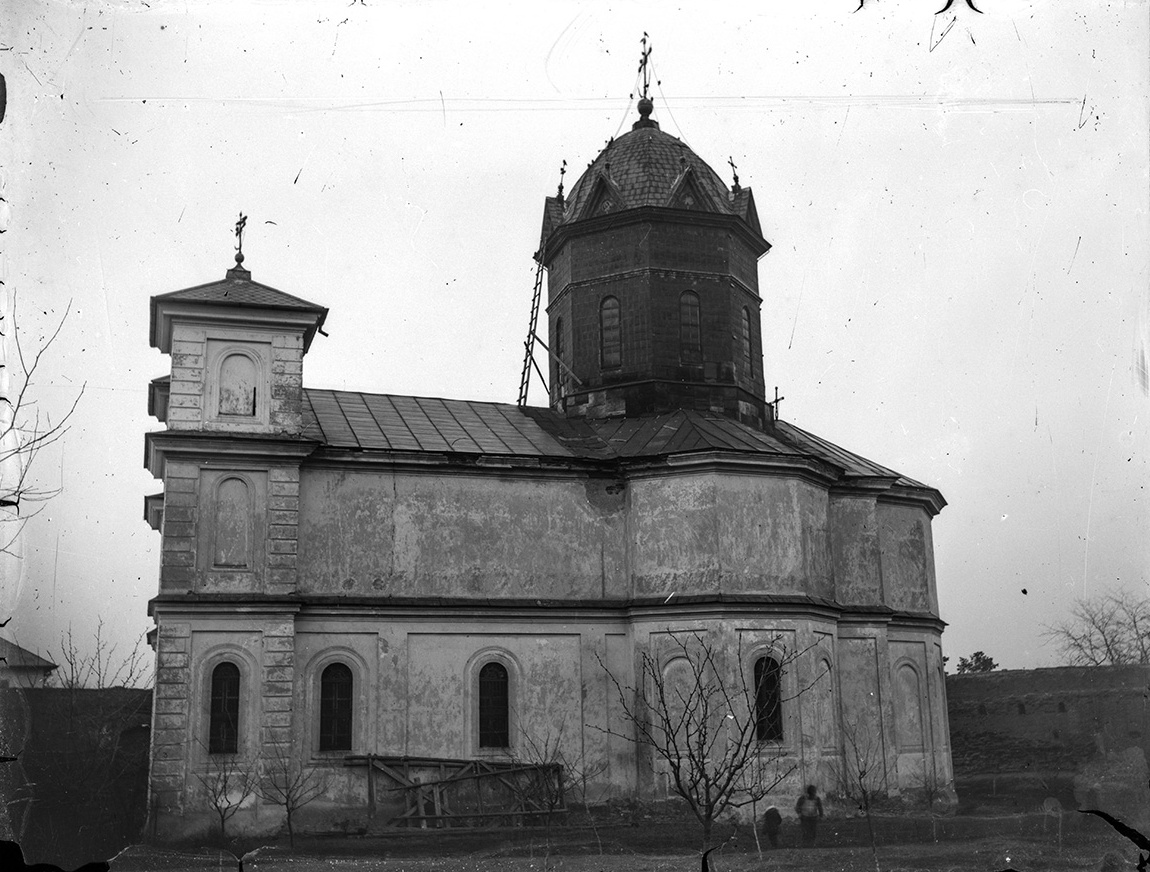 Biserică The project Costică Acsinte Archive needs help: please donate and share the link igg.me/at/acsinte/x/6146081 DAM by IDimager